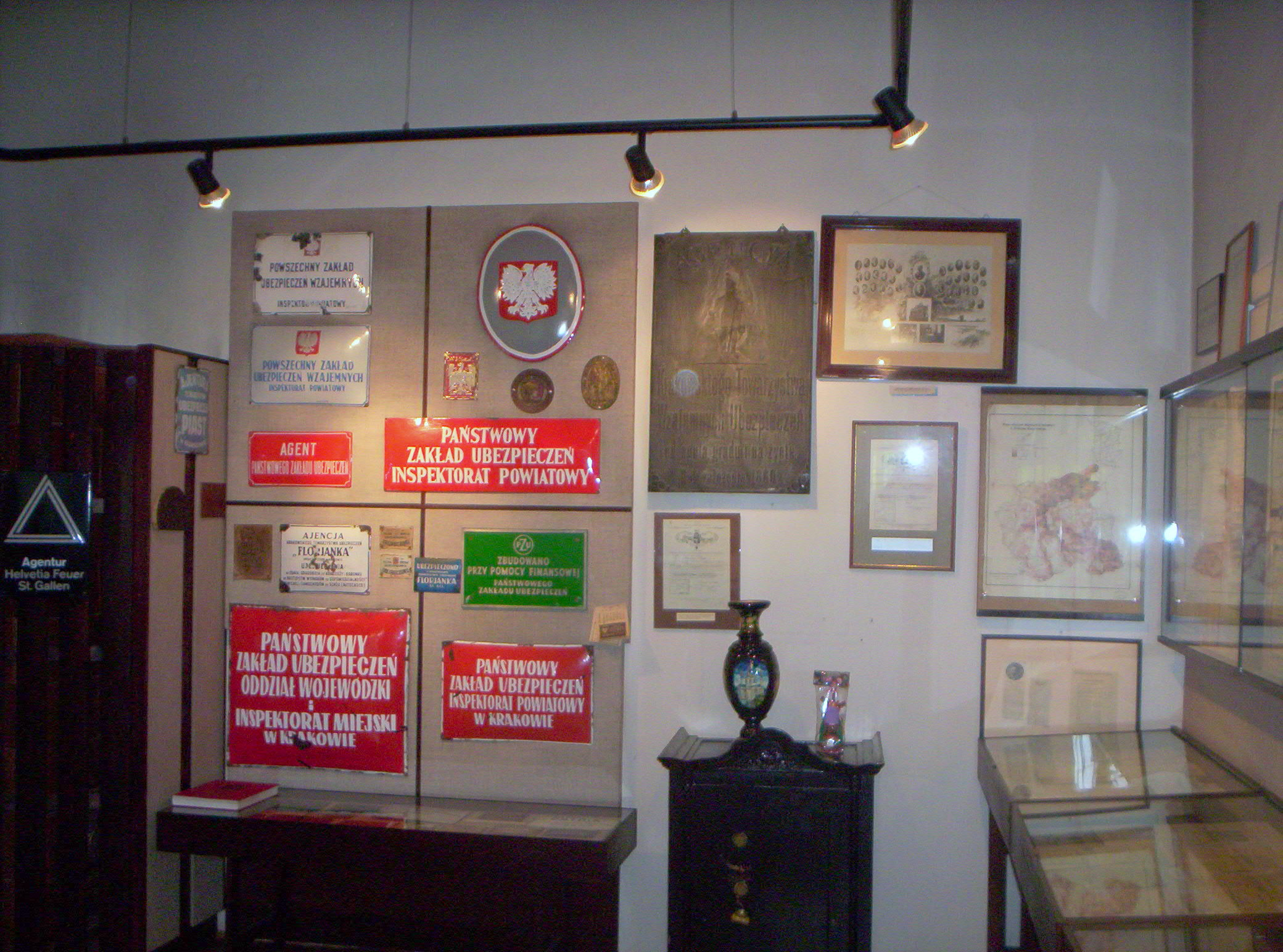 Exhibition of the Insurance Museum